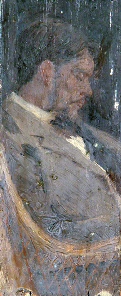 Self portrait oil on panel board 16.5 x 7 cm